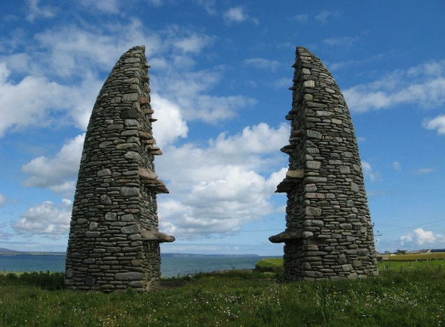 Aignish memorial This cairn, designed by Will Maclean and built by Jim Crawford, a local stonemason, commemorates the raid on Aignish Farm in 1888 by local people. The explanatory plaque close to the cairn states: "This cairn was erected in memory of the men and women of Point who raided the farm at Aignish on January 9th 1888. They did so because they were driven beyond endurance by destitution and oppression. Instead of acting to relieve their distress the authorities used the majesty of the law and the armed might of the military to crush the people. 13 of the Raiders were sentenced to prison terms ranging from 6 months to 15 months. Though the people failed to hold the farm they succeeded in bringing their desperate situation to the attention of a wide audience, but it was a later generation that reaped the benefit of their effort when, in 1905, the farm was officially broken up into crofts."